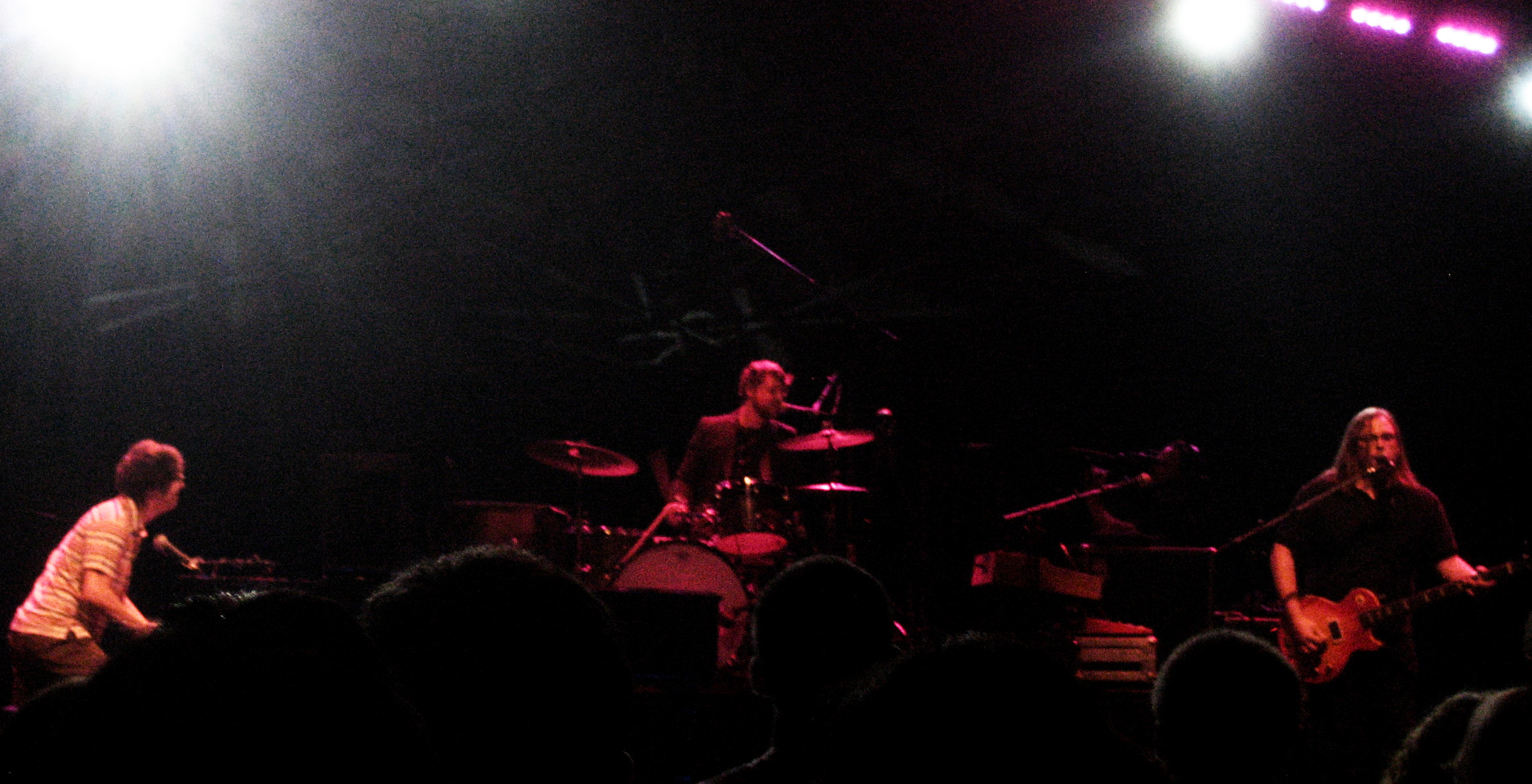 'Shot at the Ben Folds Five reunion in Chapel Hill, NC.'